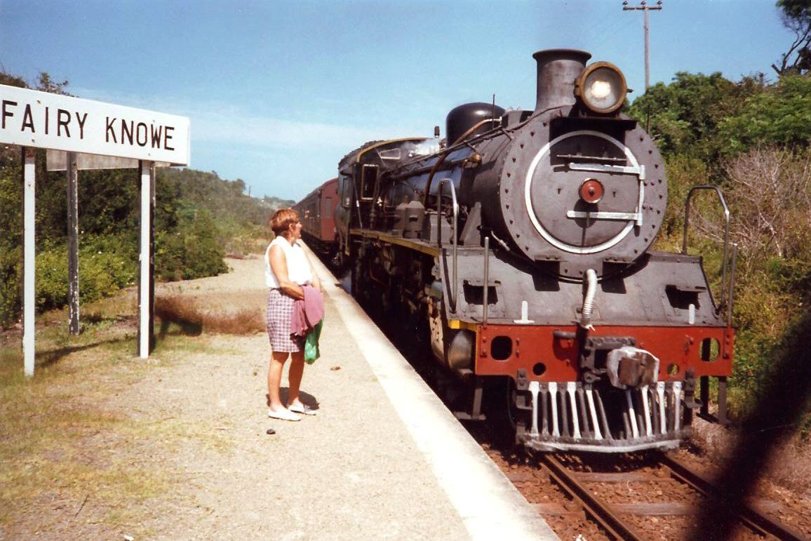 Picture taken by the contributor of Fairy Knowe station on the Garden Route in southern South Africa about the year 1999.